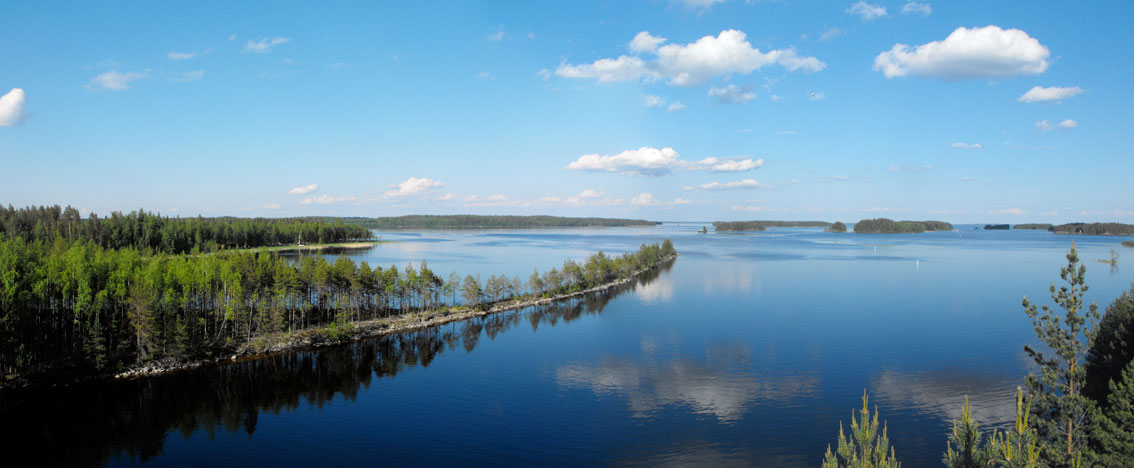 Panoramic view over the lake Saimaa.